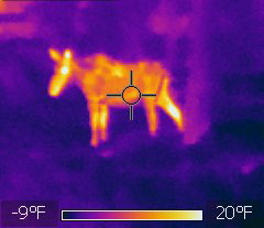 A thermal image of a cow moose in Anchorage Alaska during the winter.